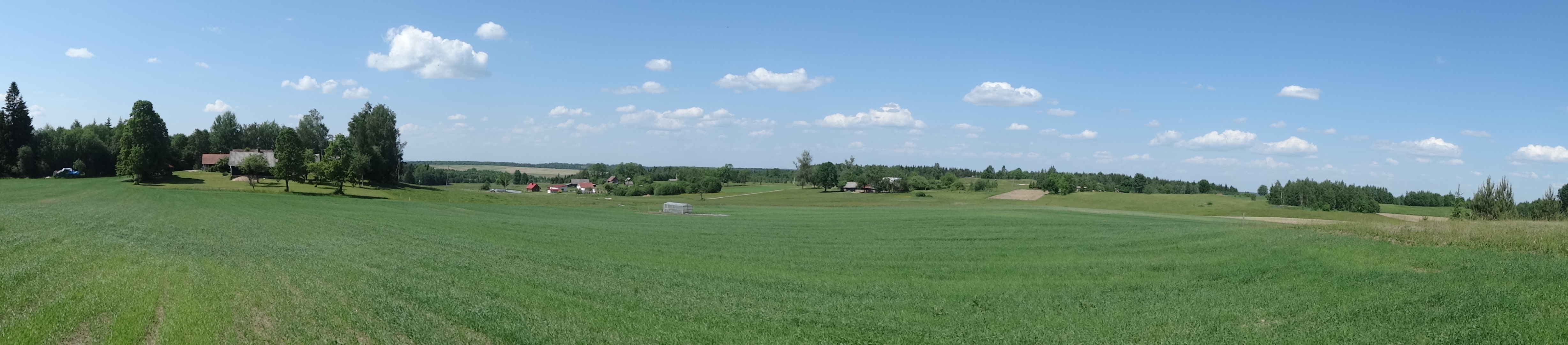 Juozapinė, Vilnius District, Lithuania